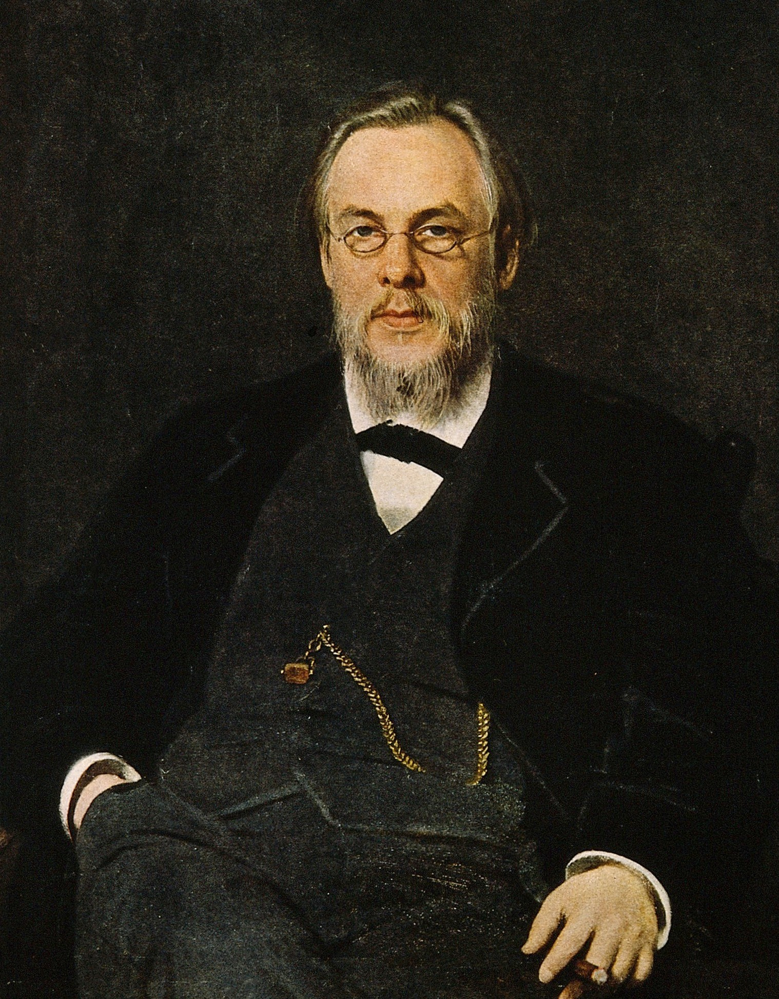 Sergei Petrovitsch Botkin. Colour reproduction of photogravure, 1954, after I. N. Kramskoi.